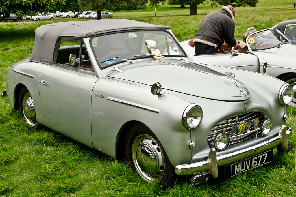 Arley Hall Classic Car Show 23/09/2012